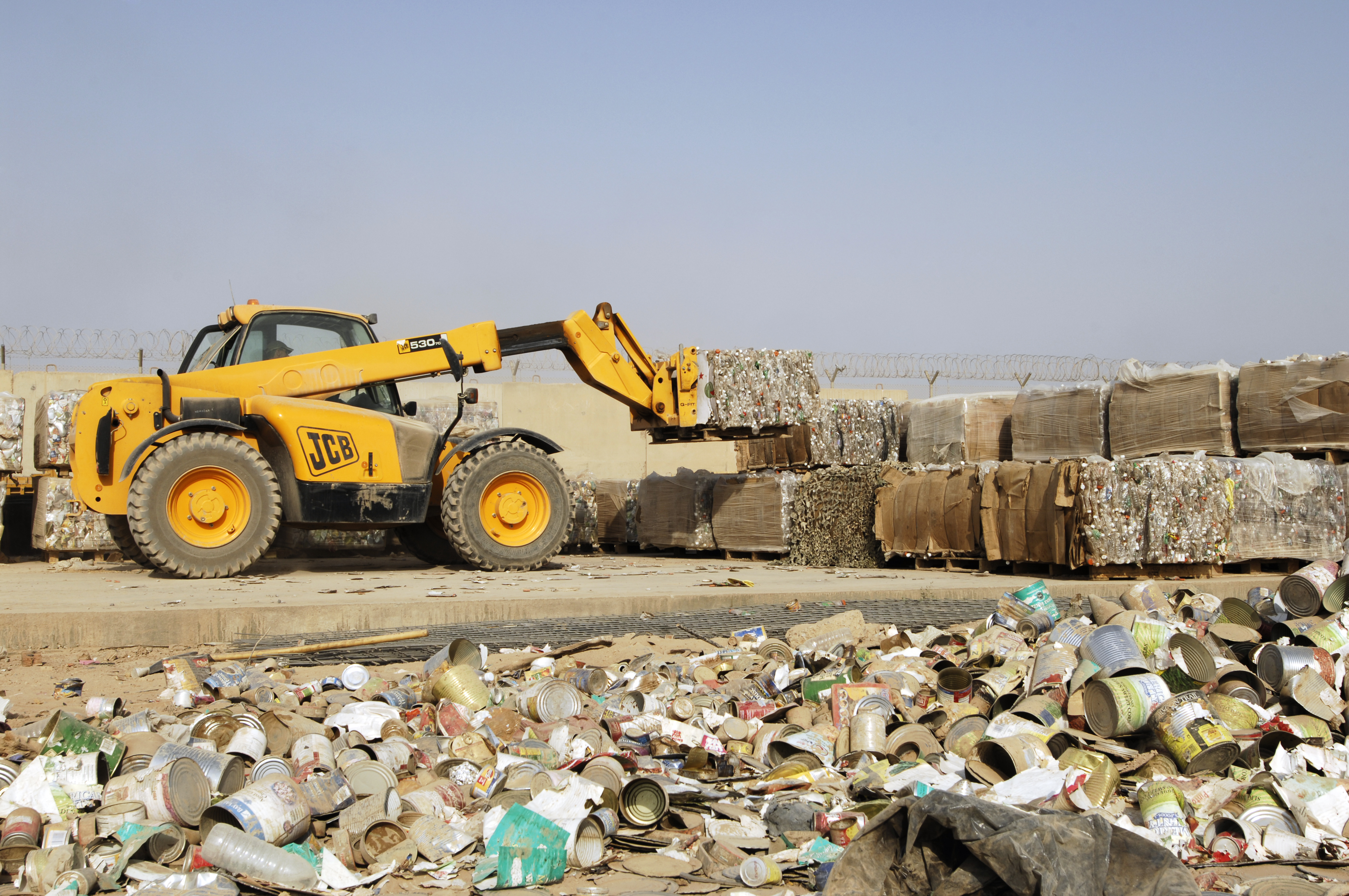 Forklift truck JCB 530/70.